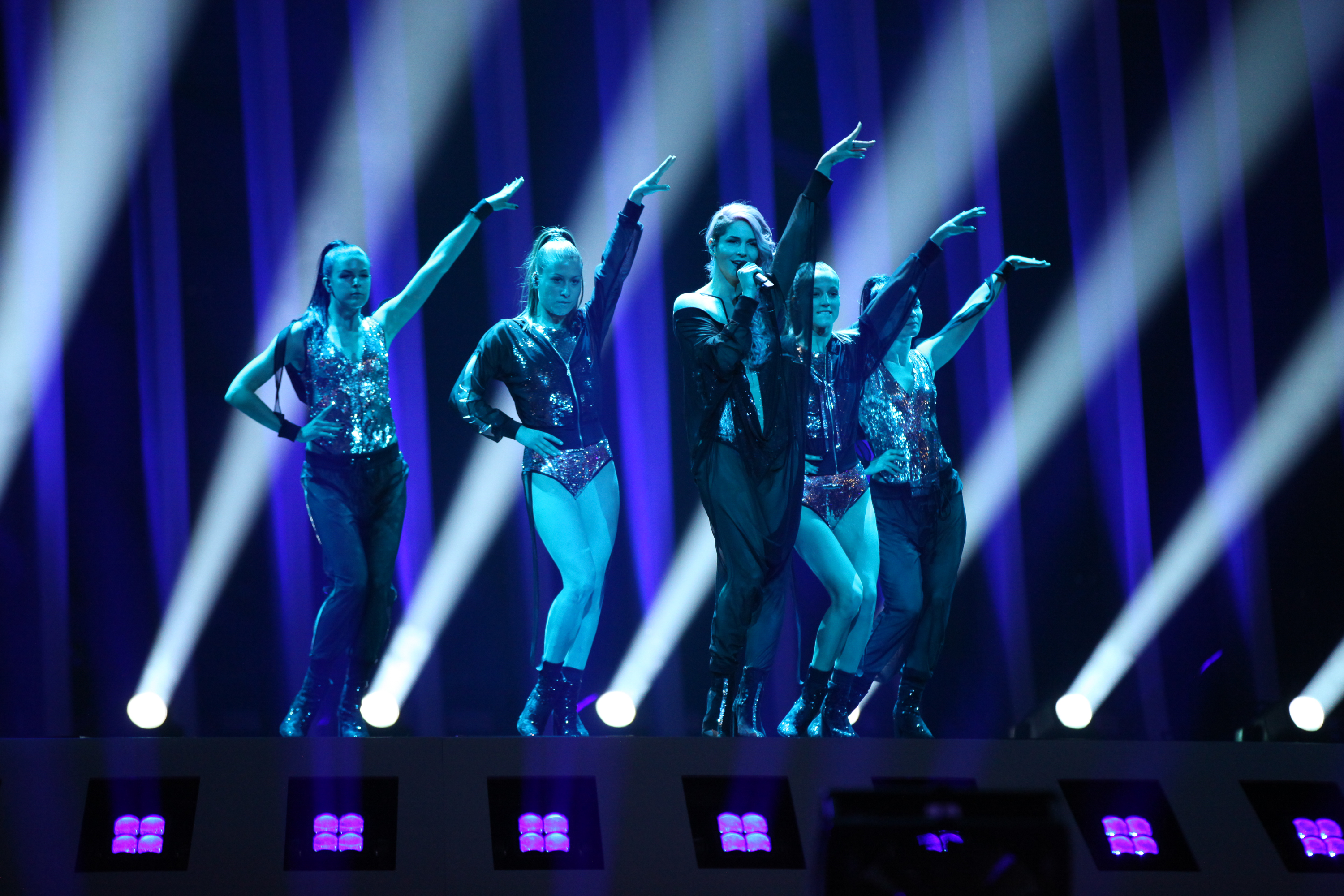 Lea Sirk representing Slovenia with the song "Hvala, ne!" during a rehearsal before the second semi final of the Eurovision Song Contest 2018 in Lisbon.